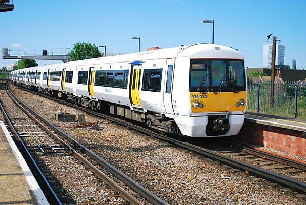 Bombardier (Derby) Class 376 "Electrostar" 750v dc 3rd rail inner-suburban 5-car emu No.376 033 of South Eastern at New Cross on a Charing Cross - Dartford Loop service, 06/10.